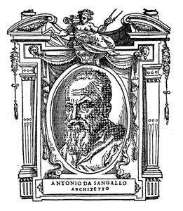 Illustratio from "Le Vite" by Giorgio Vasari, edition of 1568. For the artist portrayed see filename